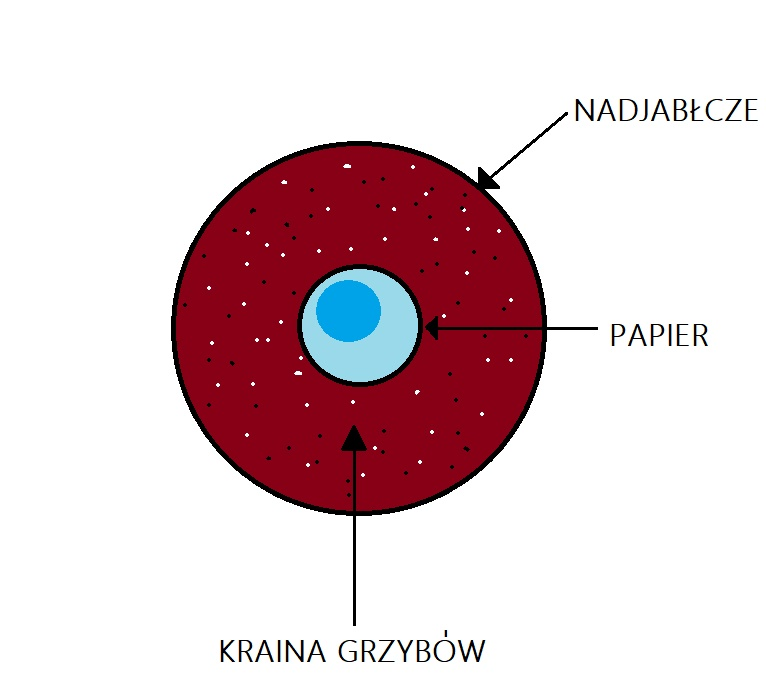 Scheme of a "apple" made by me based upon the webserie "Mushroom land" ("Kraina Grzybow")